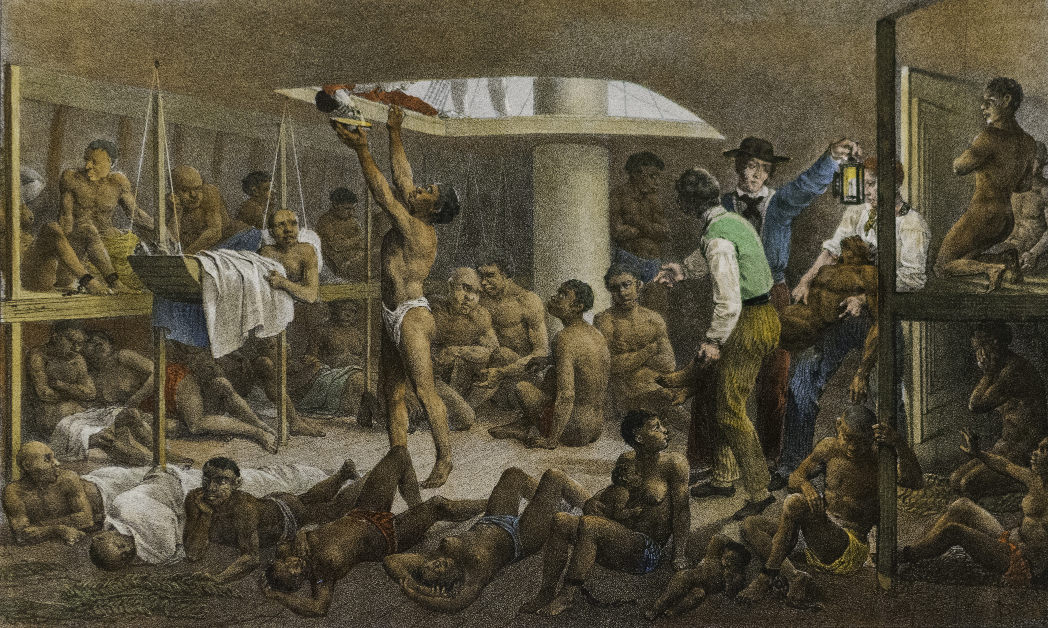 Negros in the cellar of a slave boat.